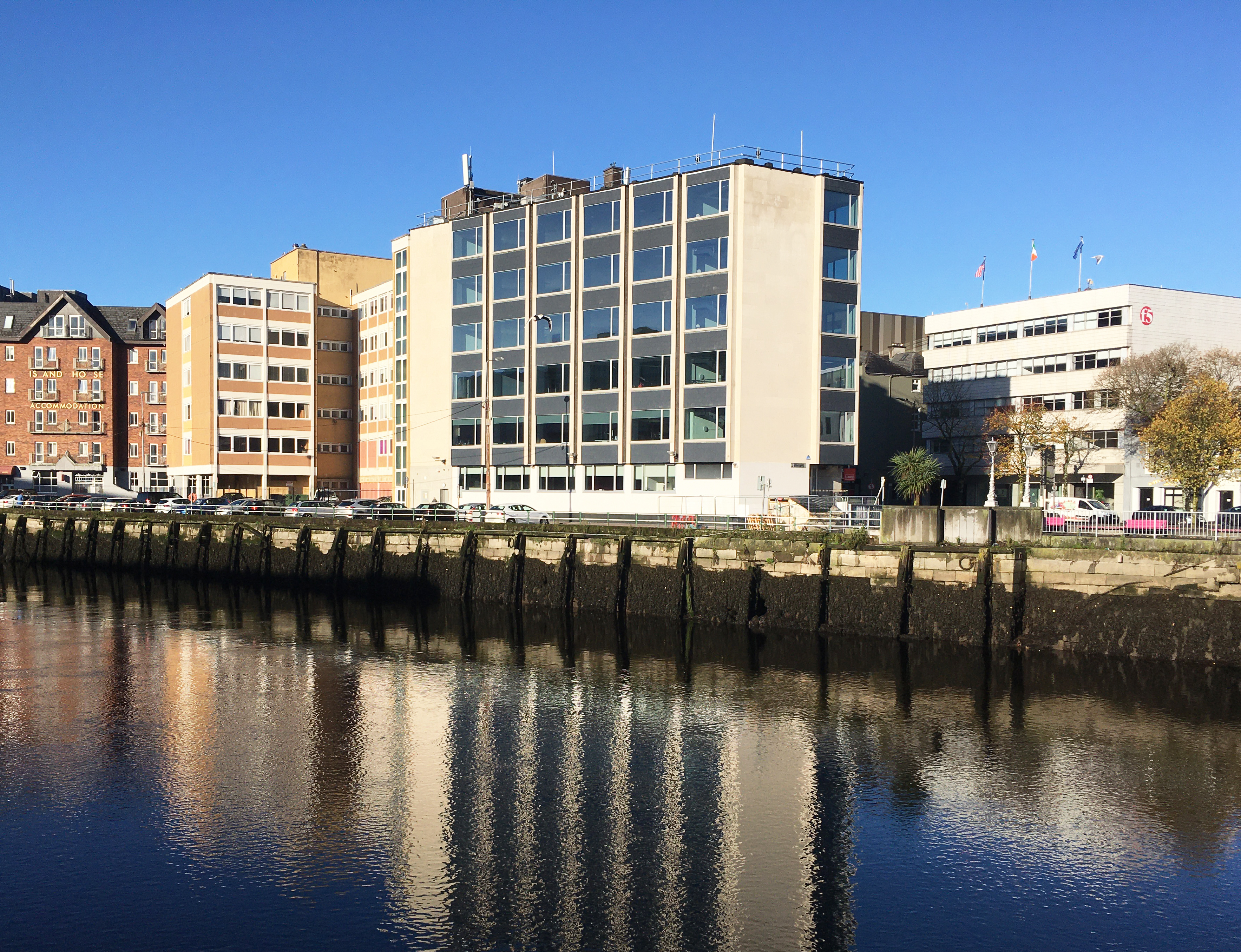 Sutton House, South Mall, Cork City (1965) Designed by architect Frank Murphy